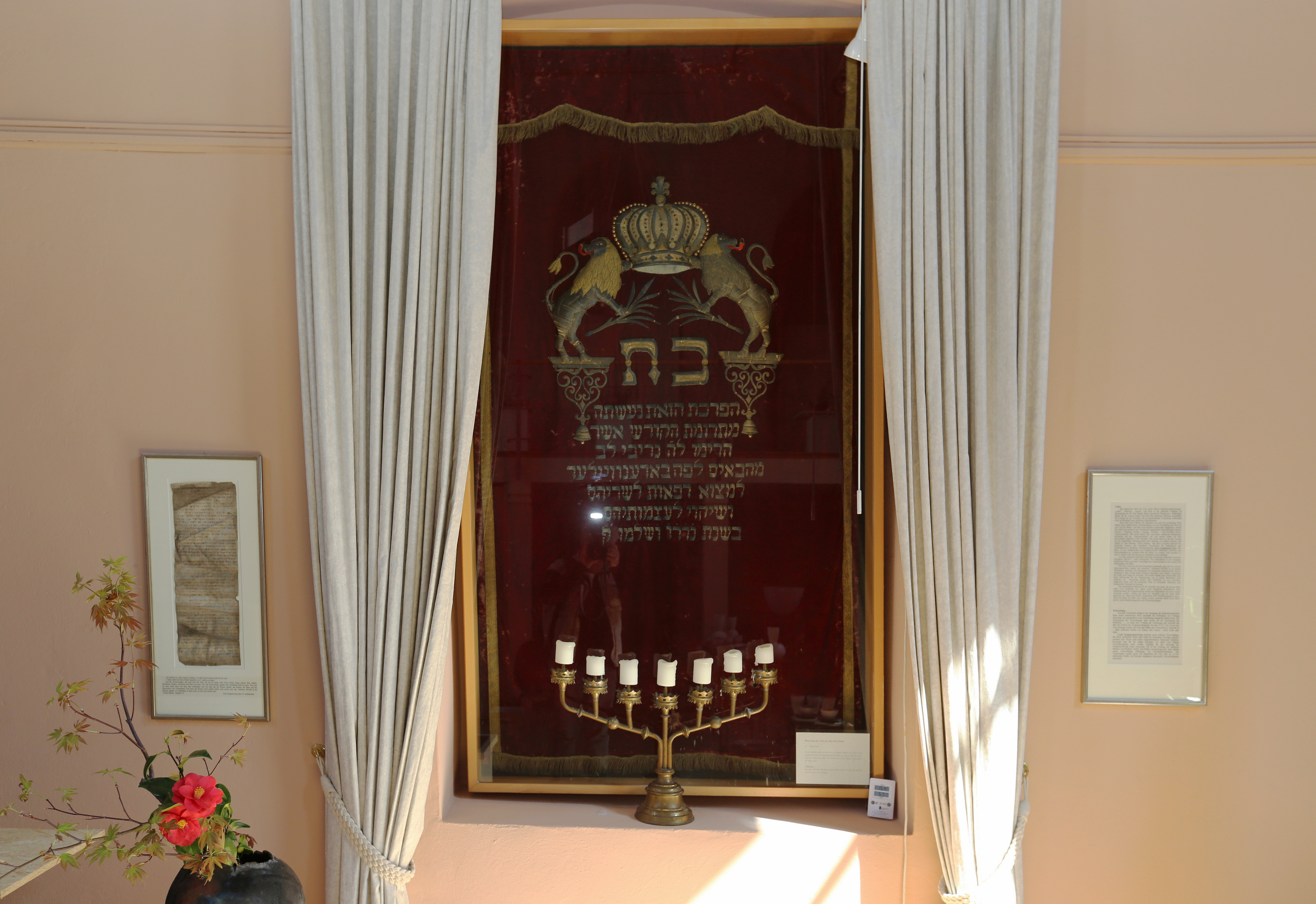 The Hebrew initial s כ ת stand for כתר תורה "Crown of Torah" (based on Mishnah, Avot 4:13).